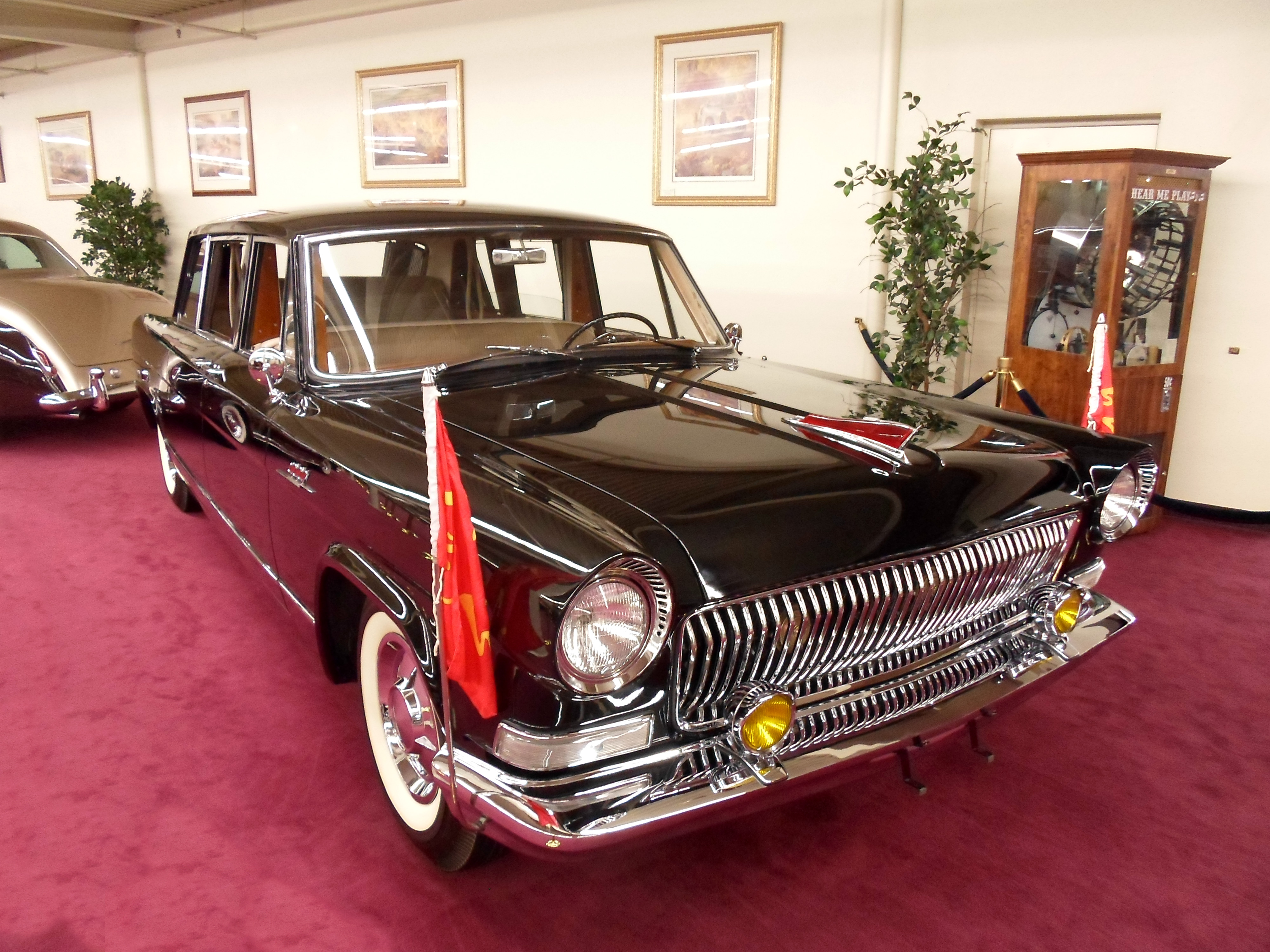 Stately Hong-Qi cars were made through the 50s to the 70s. Not too often you get the chance to see a classic Chinese car!